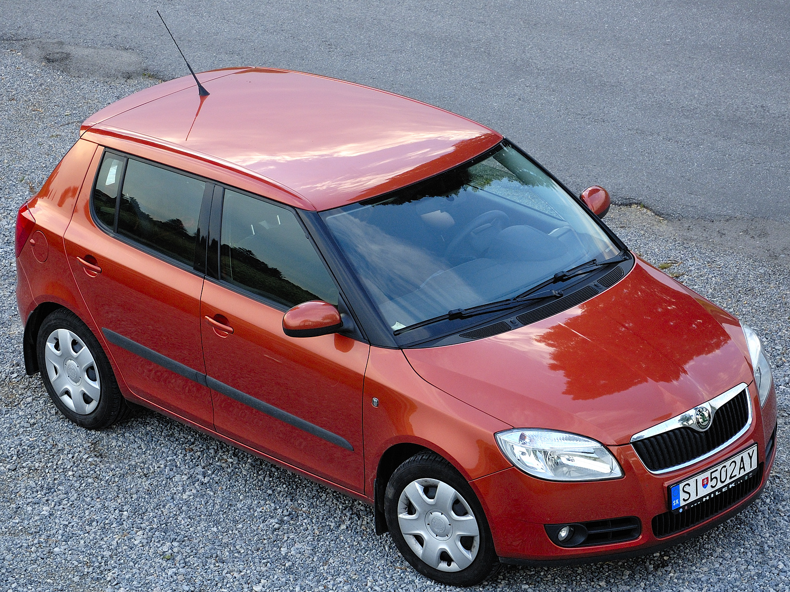 Škoda Fabia II